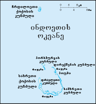 map of Cocos_(Keeling)_Islands